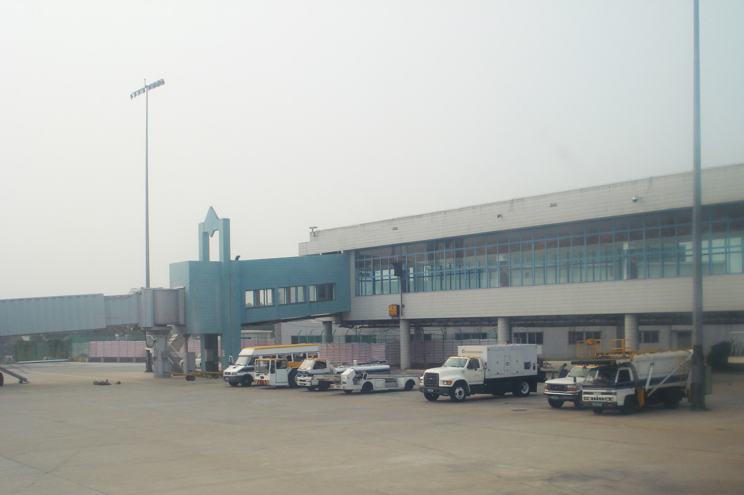 The earliest terminal of Zhengzhou Xinzheng Airport (CGO). Shot in 2006.